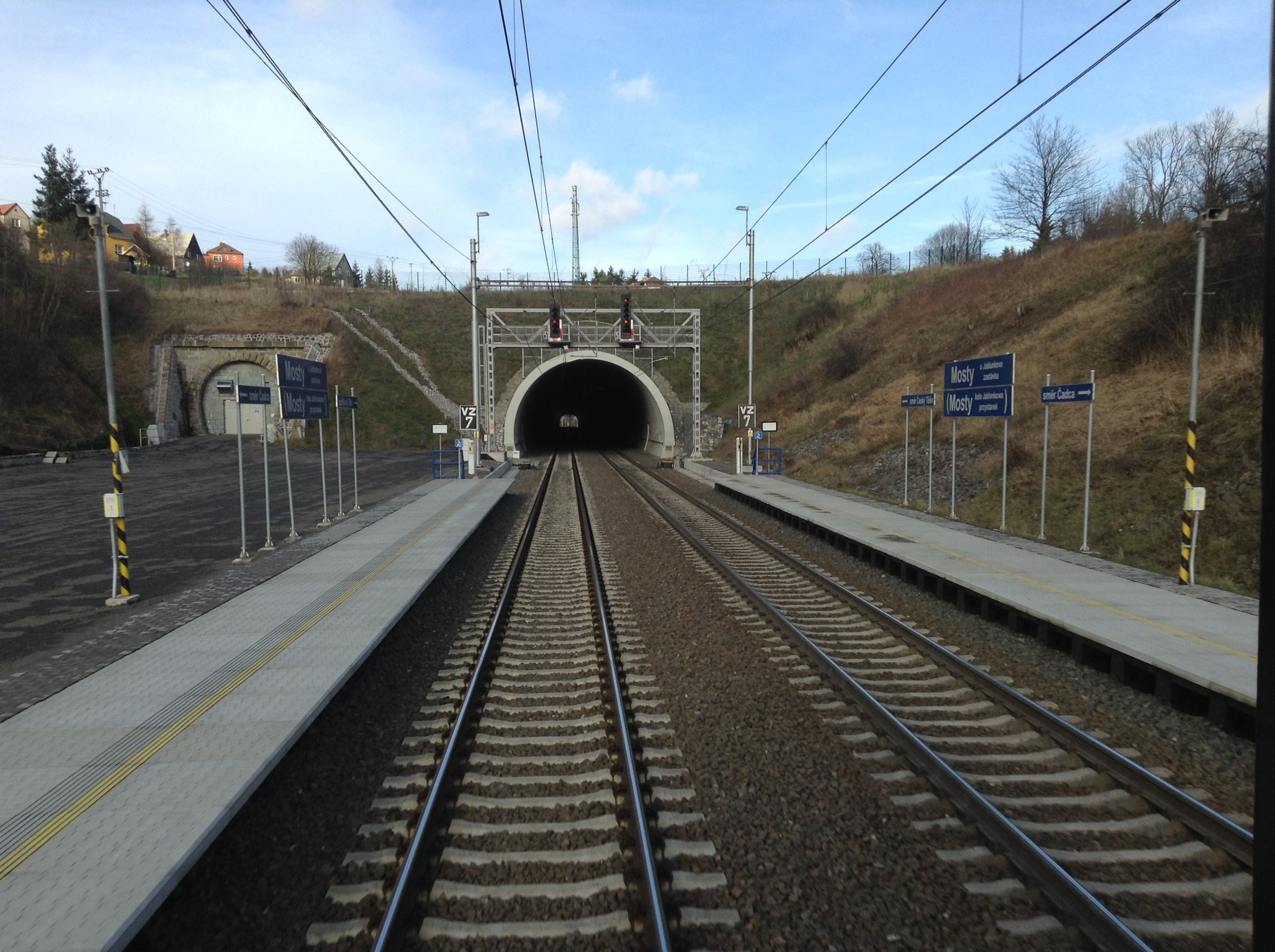 Tunnels at Mosty u Jablunkova, Czech Republic in December 2015